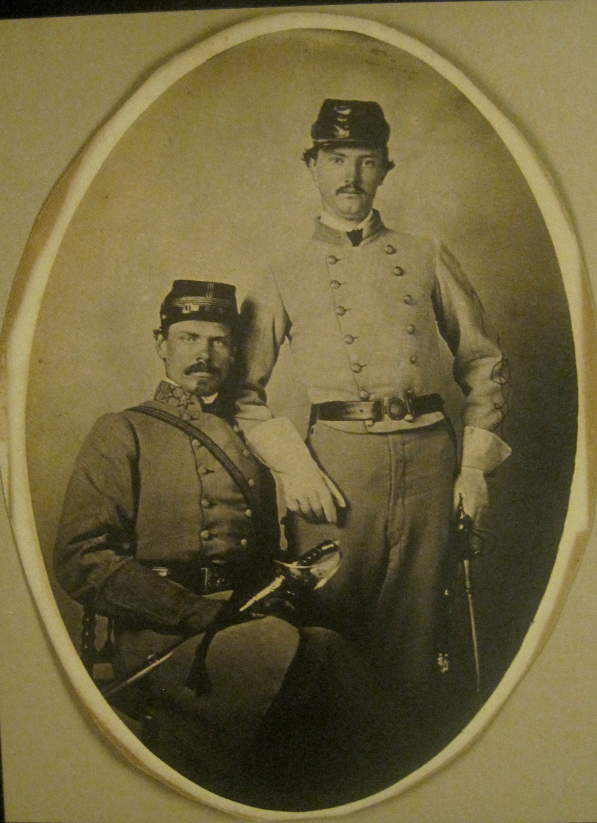 Correction of mirrored image. Seated is Colonel Lawrence Williams Orton, PACS ; standing is Lieutenant Walter Gibson Peter, PACS .